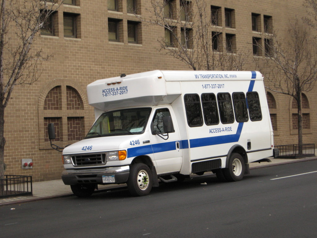 MTA NYC Transit Access-A-Ride van 4246 in Kips Bay, Manhattan.